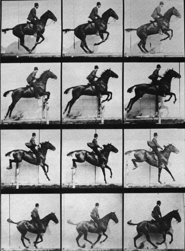 Sequence of a horse jumping by Eadweard Muybridge (d.1904).